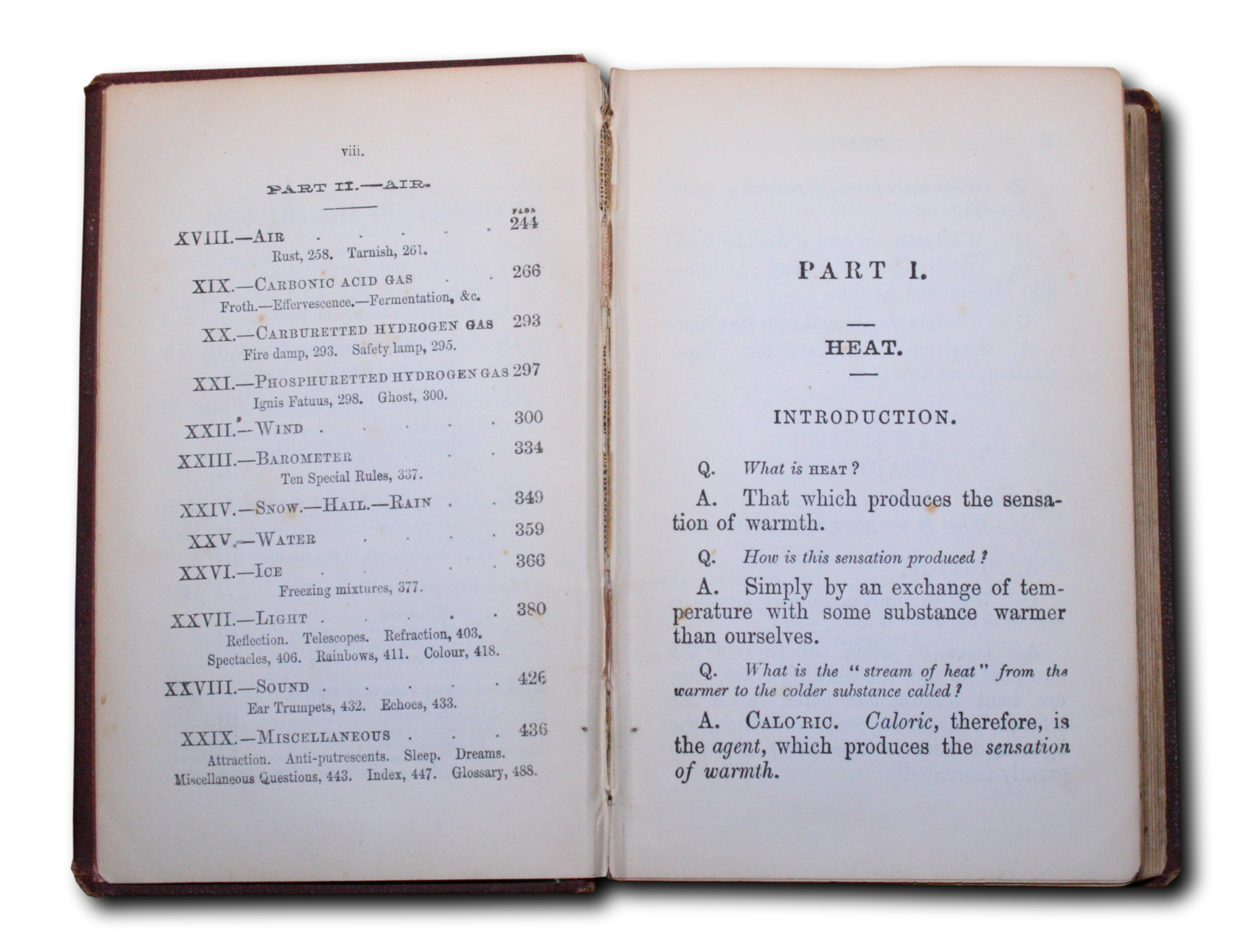 Second contents page of A Guide to the Scientific Knowledge of Things Familiar by Ebenezer Cobham Brewer, also known as Dr Brewer's Guide to Science. This is the 38th edition published in 1880.